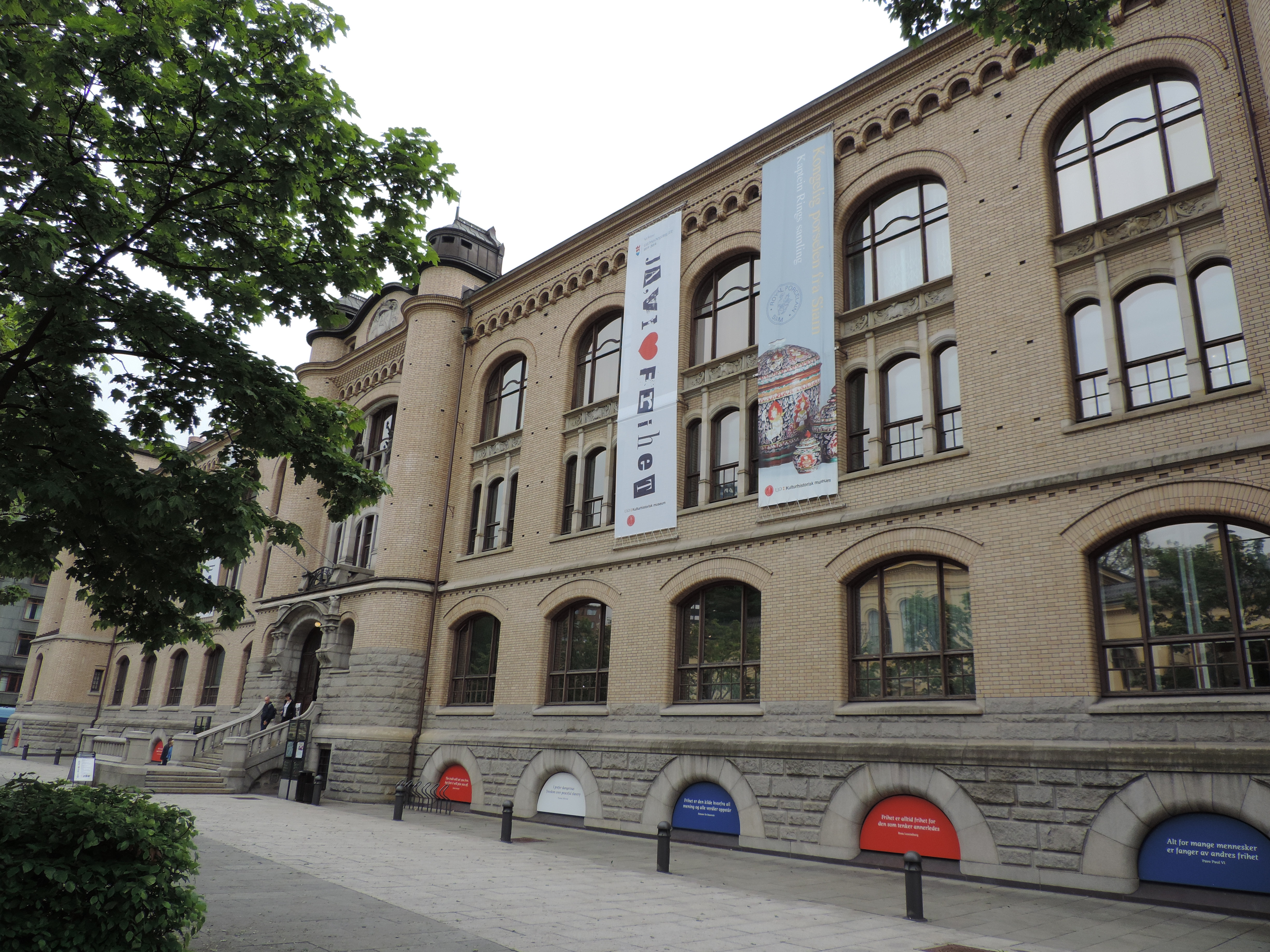 Main building of the Museum of Cultural History, Oslo